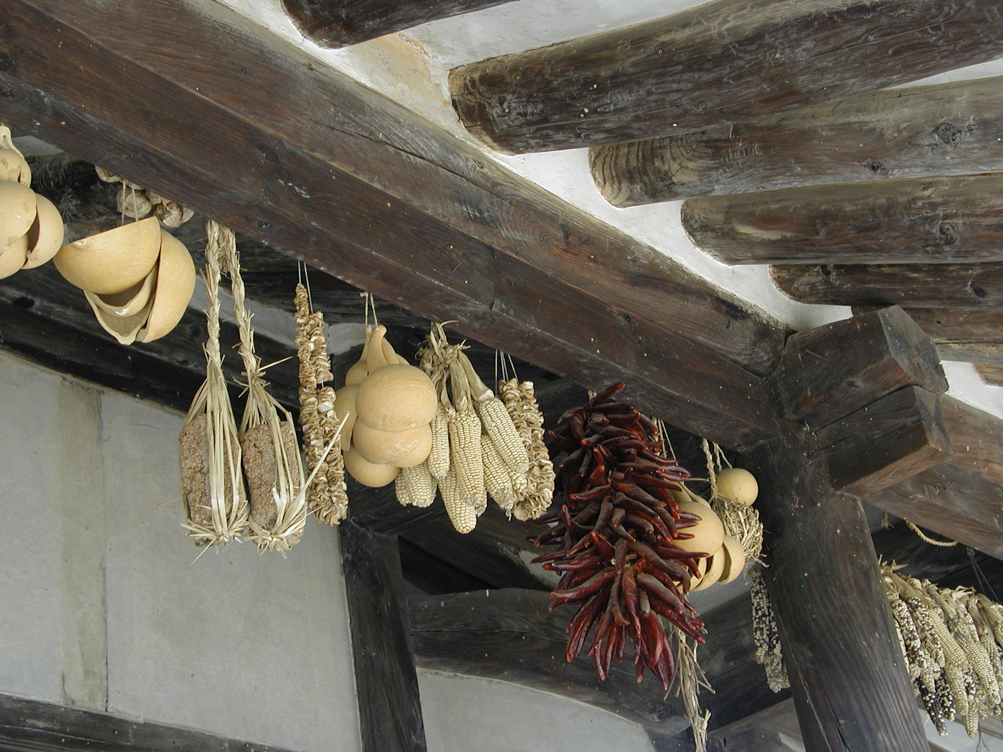 Korean Folk Village (Minsokchon) in Yongin, Gyeonggi-do, Korea